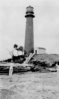 U.S. Coast Guard Archive Photo of Jupiter Inlet Light, Jupiter, Florida